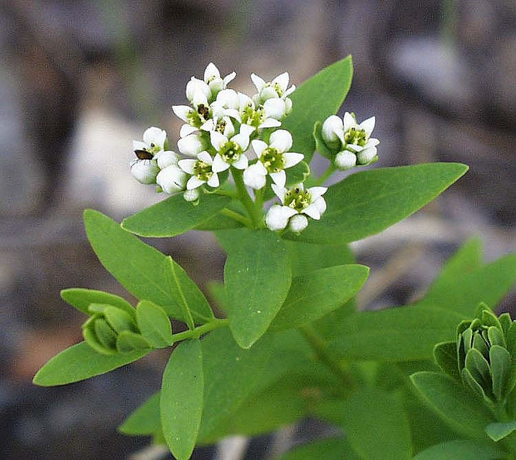 Comandra umbellata at Isle Royale National Park, Michigan, USA